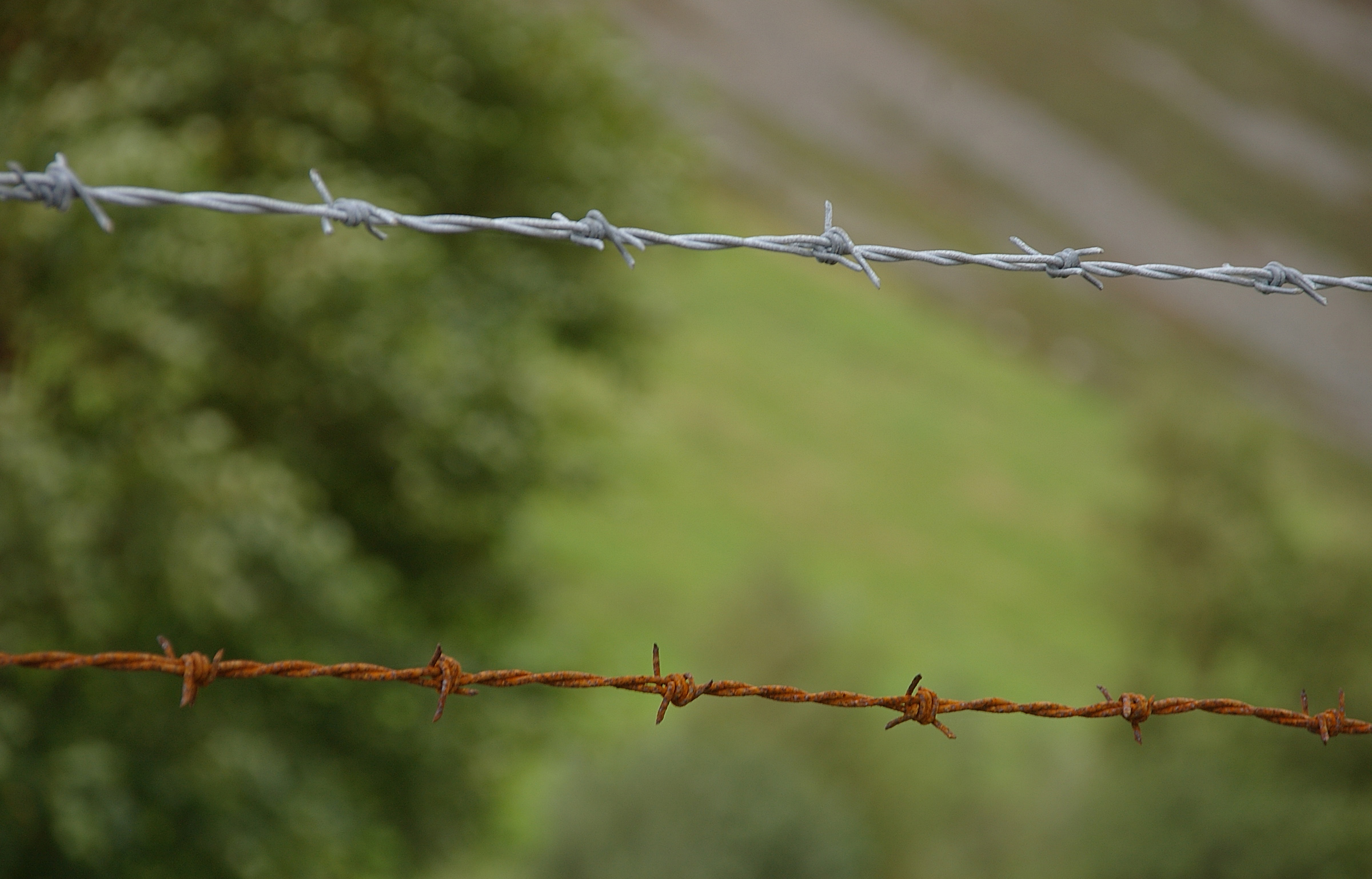 Barbed wire by the B4418 near Rhyd Ddu.